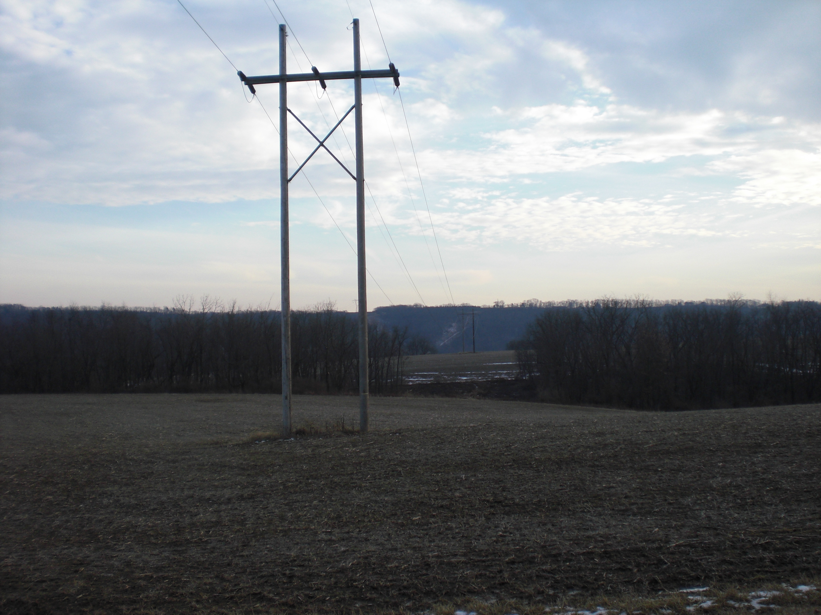 Fields and woods in the winter in Montour Township.